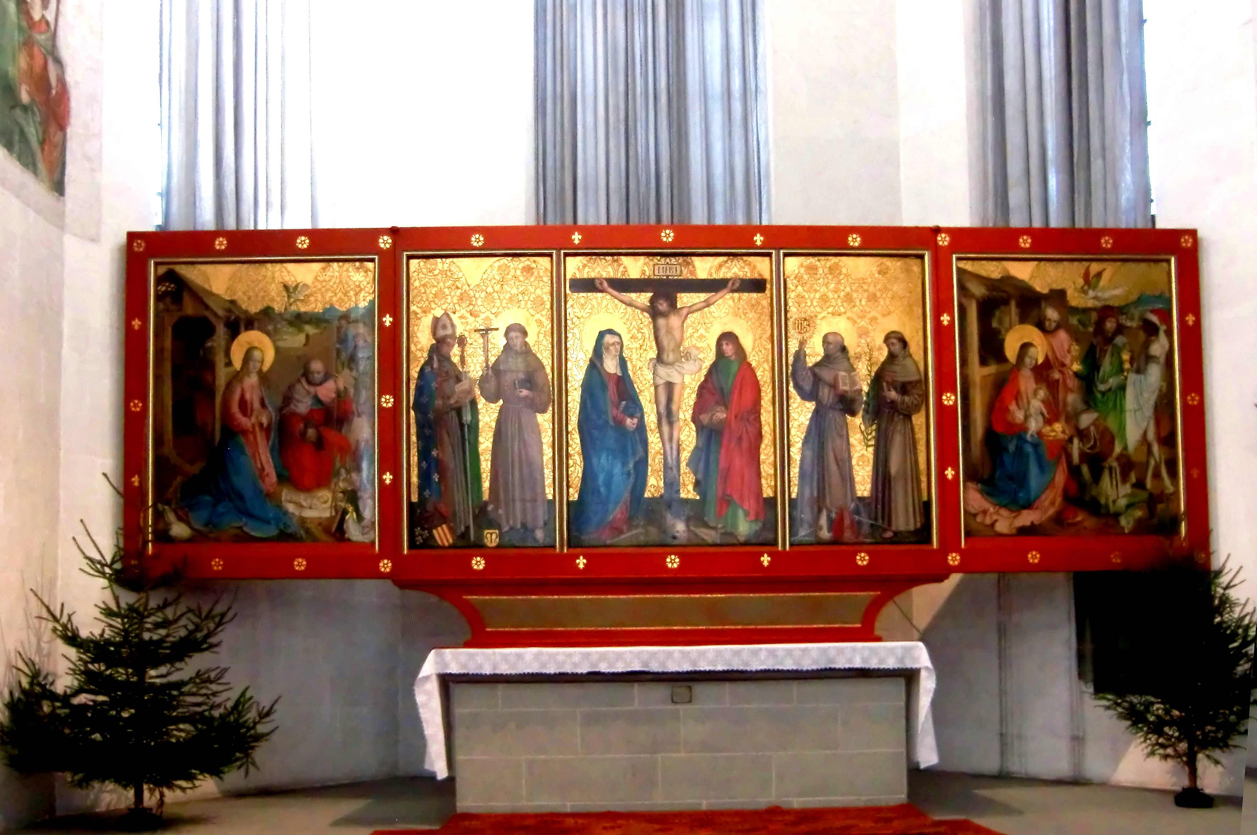 Maîtres à l'Oeillet», Retable on the main altar, 1479-1480, Église des Cordeliers, Fribourg (CH)